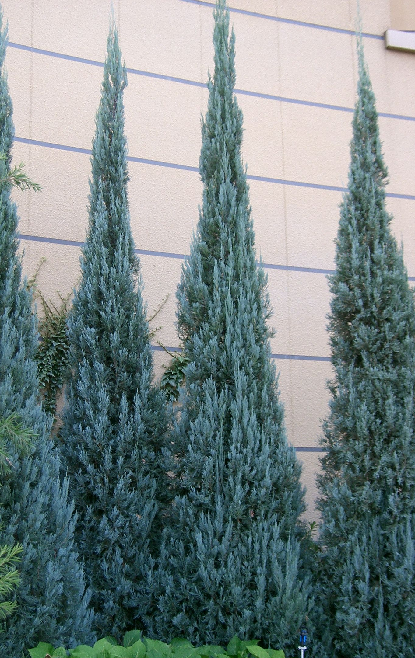 Juniperus scopulorum 'Blue Heaven', Osaka-fu, Japan